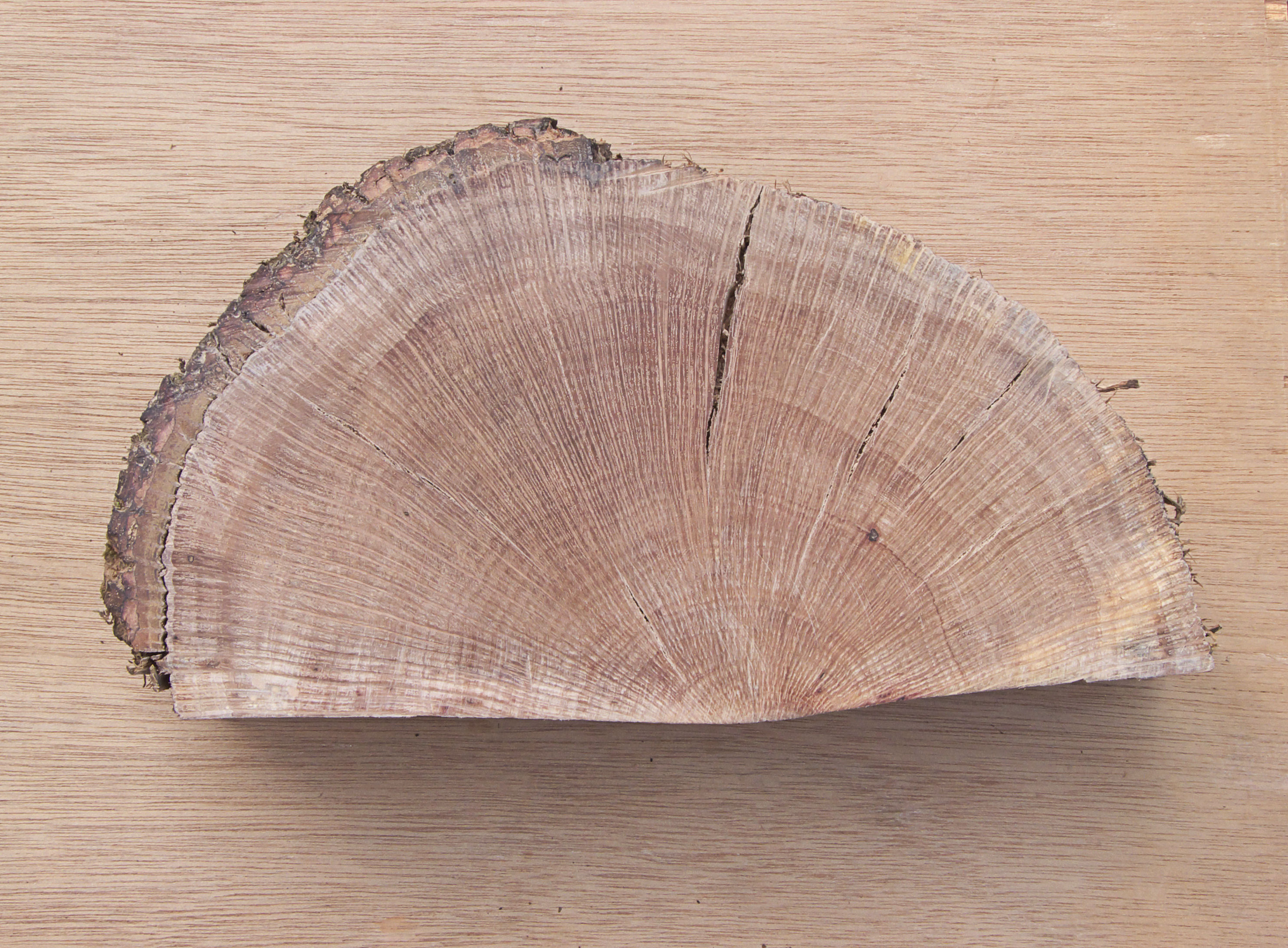 Wood of Quercus ilex, diameter 26 cm